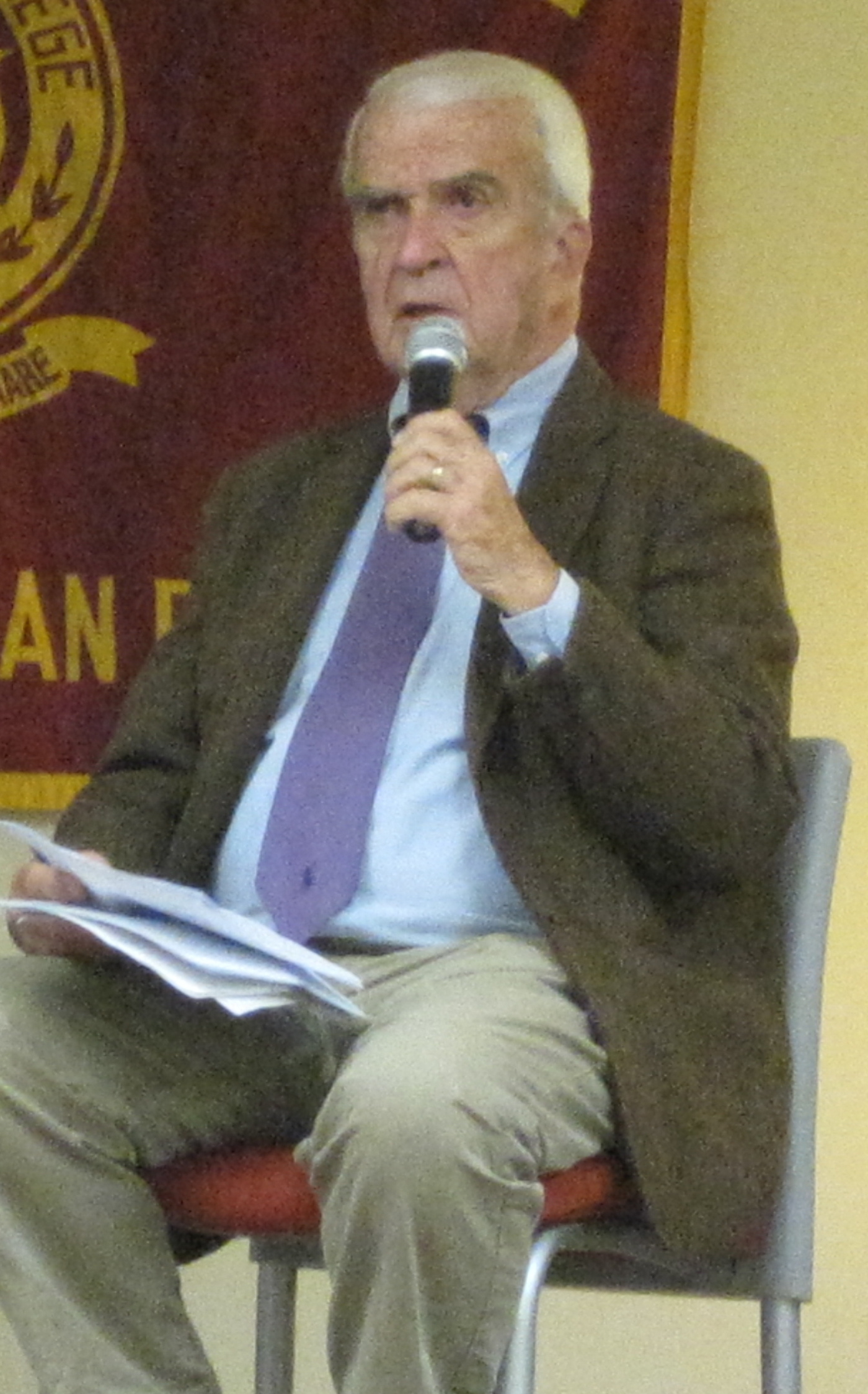 Edward Noonan, interim president of Shimer College, delivering the State of the College address on May 2, 2010.